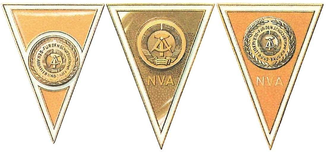 Graduates badge for officers of “GDR armed organs”, received education at a civilian high school or university of the GDR, three different versions.